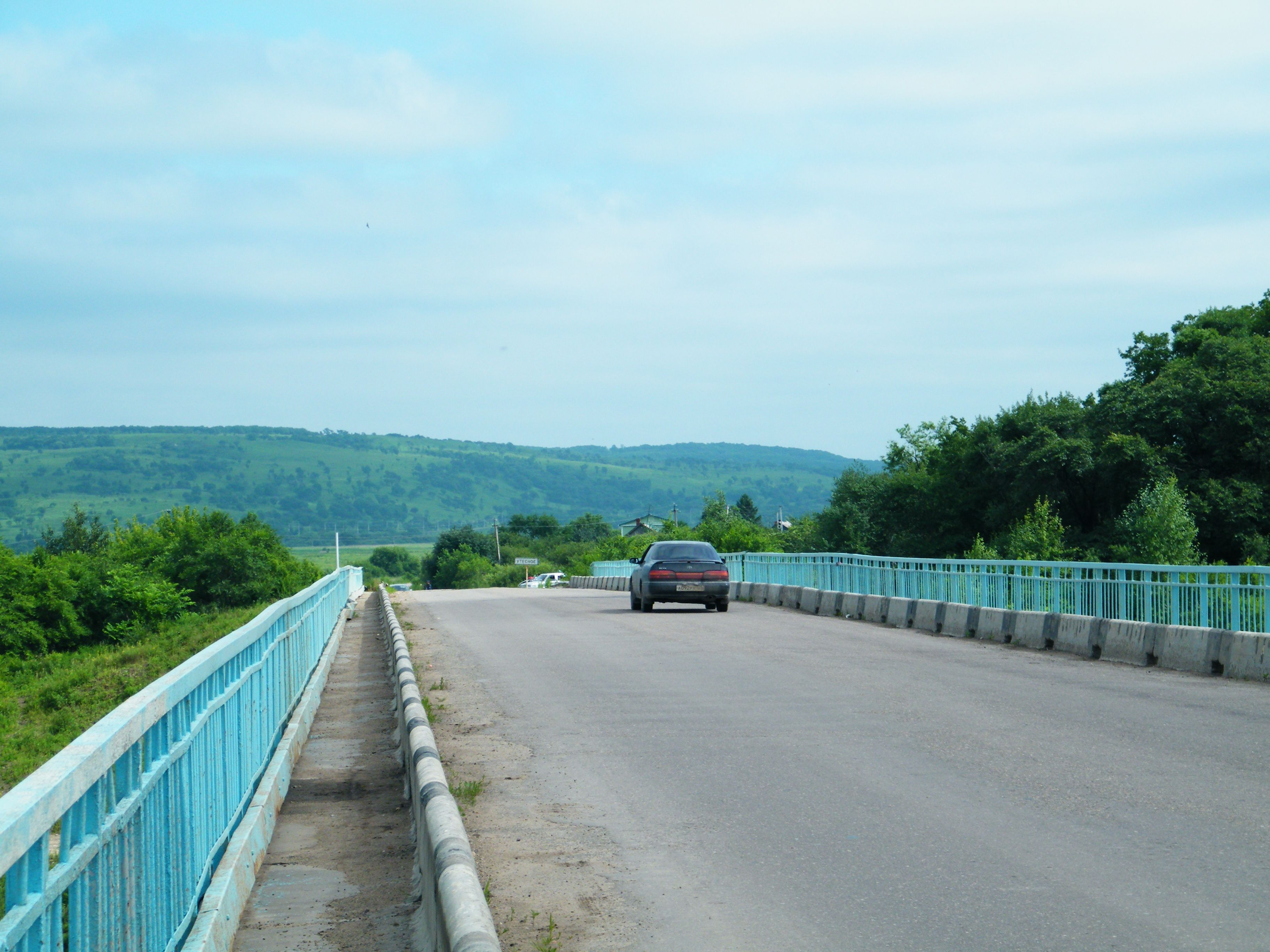 Bridge over Razdolnaya River in Utyosnoye, Ussuriysk, Primorsky Krai, Russia